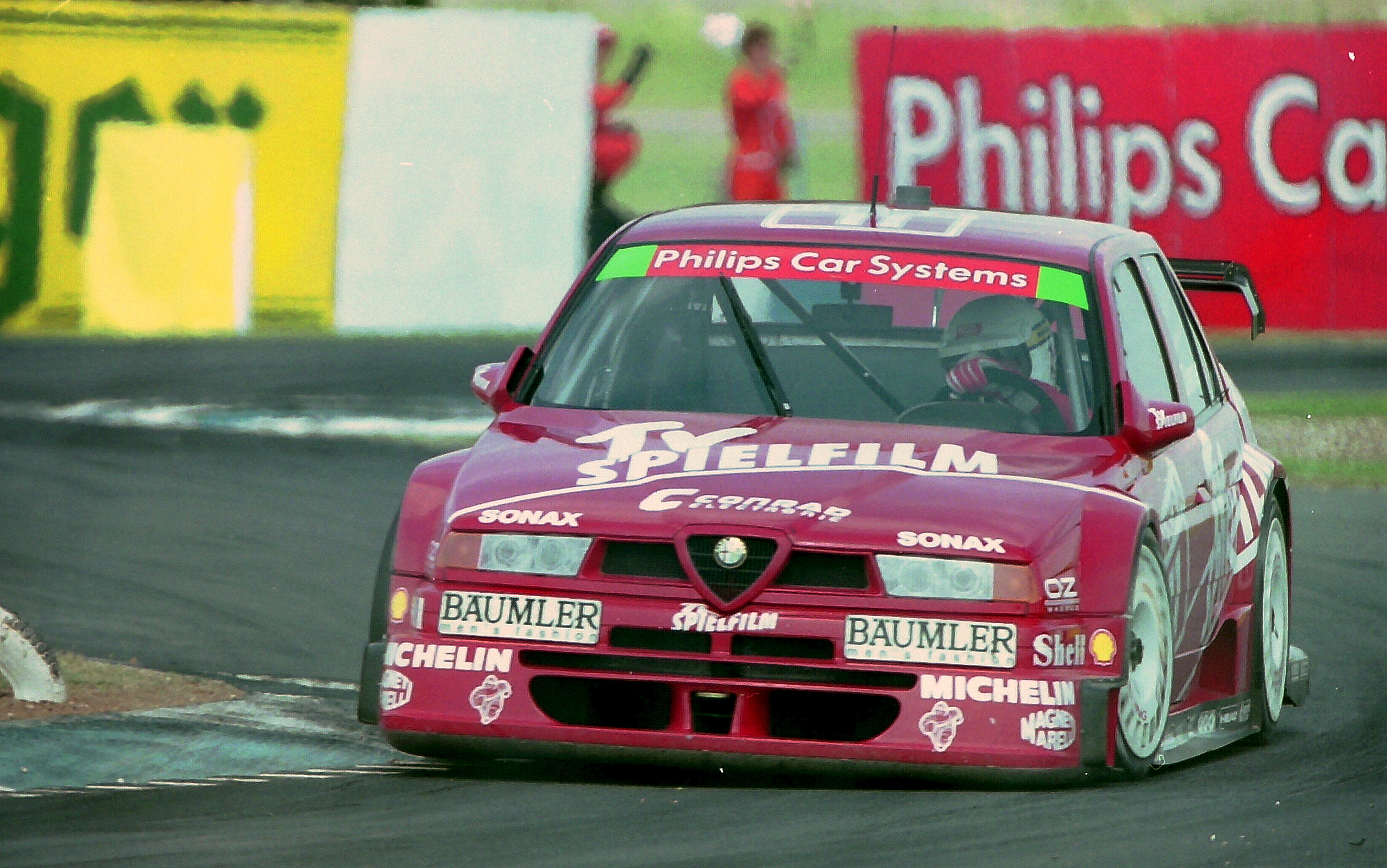 German Touring Car Championship - Donington Park July 17 1994